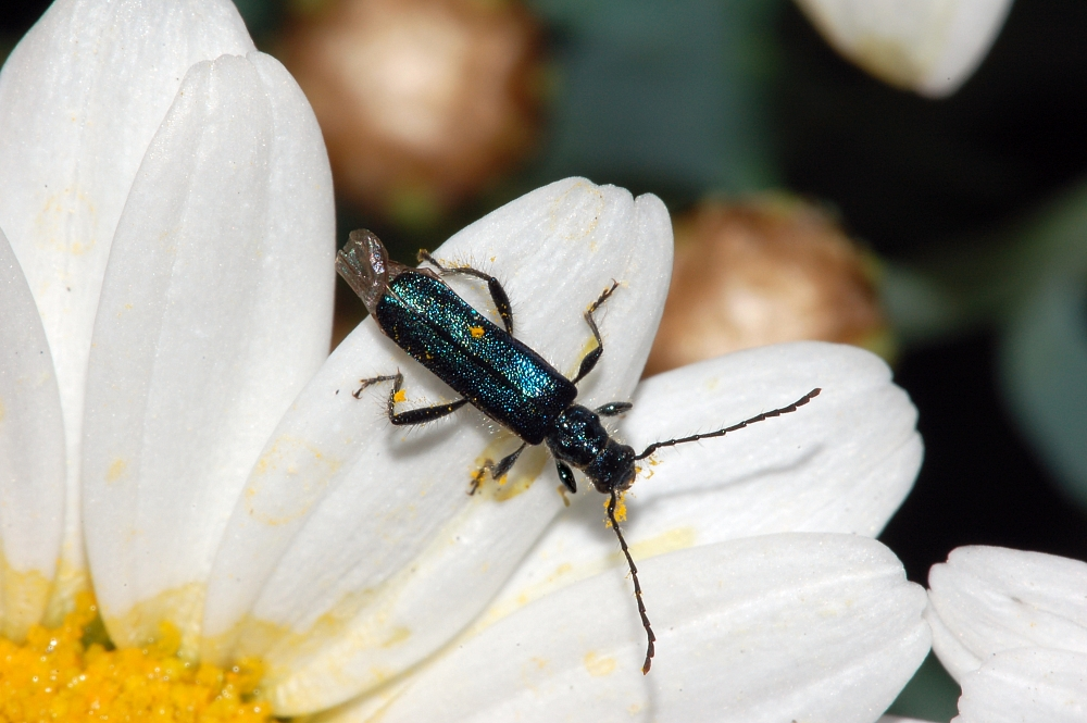 Callimellum angulatum, Mörfelden, Hesse, Germany